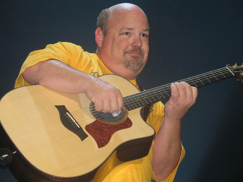 Kyle Gass performing on lead guitar.